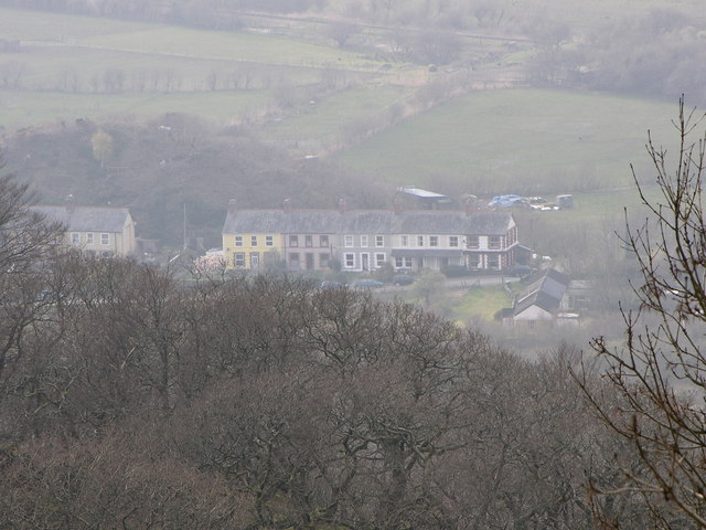 St Mary's Terrace Arthog St Mary's Terrace built by Solomon Andrews in 1900. The gap in the middle is due to subsidence! The last house was formerly a hotel, and number 8 next door was a grocers with a bakehouse at the back.